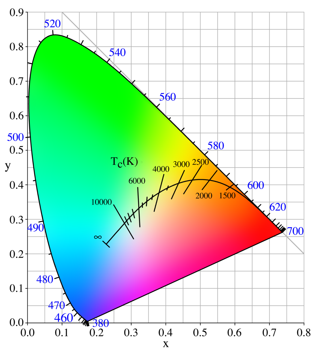 CIE xy 1931 chromaticity diagram including the Planckian Locus. The Planckian locus is the path that a black body color will take through the diagram as the black body temperature changes. Lines crossing the locus indicate lines of constant correlated color temperature. Monochromatic wavelengths are shown in blue in units of nanometers. Latest version (16 April 2005) uses 1931 CIE standard observer, since this is the most commonly used standard observer.